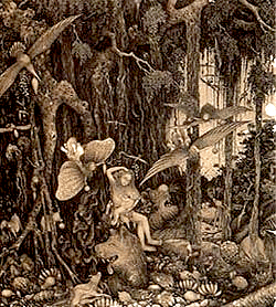 Birth of AnomanWash technique on paper48.3 x 42.7 cmPL / 110 / L